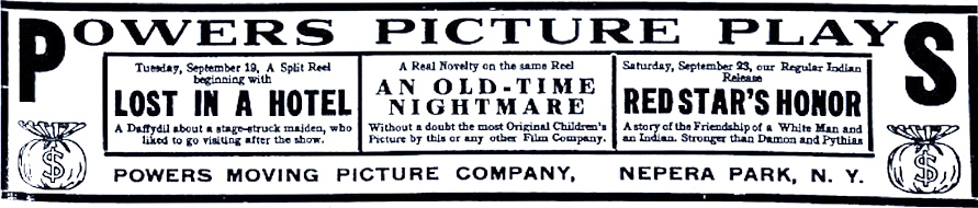 Banner advertisement for 1911 films of Powers Moving Picture Company, Nepera Park, New York; published in the trade paper The Billboard (Cincinnati, Ohio), September 16, 1911, p. 71.